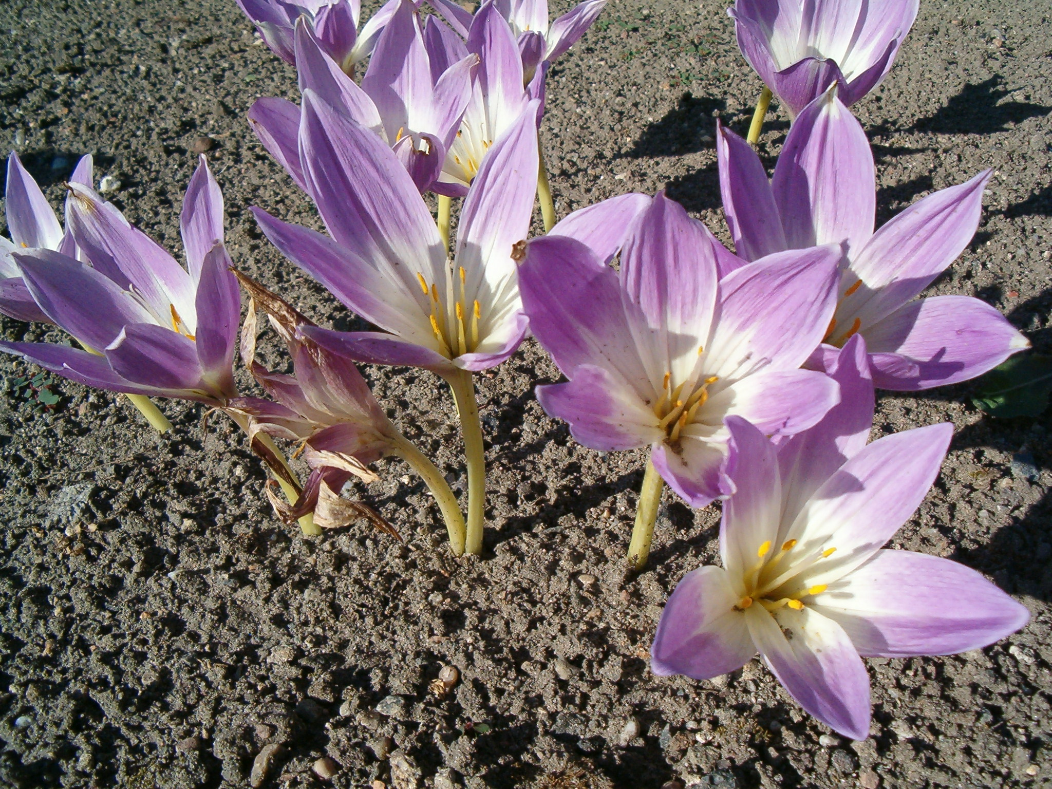 Colchicum speciosum Location: Botanical Gardens Berlin